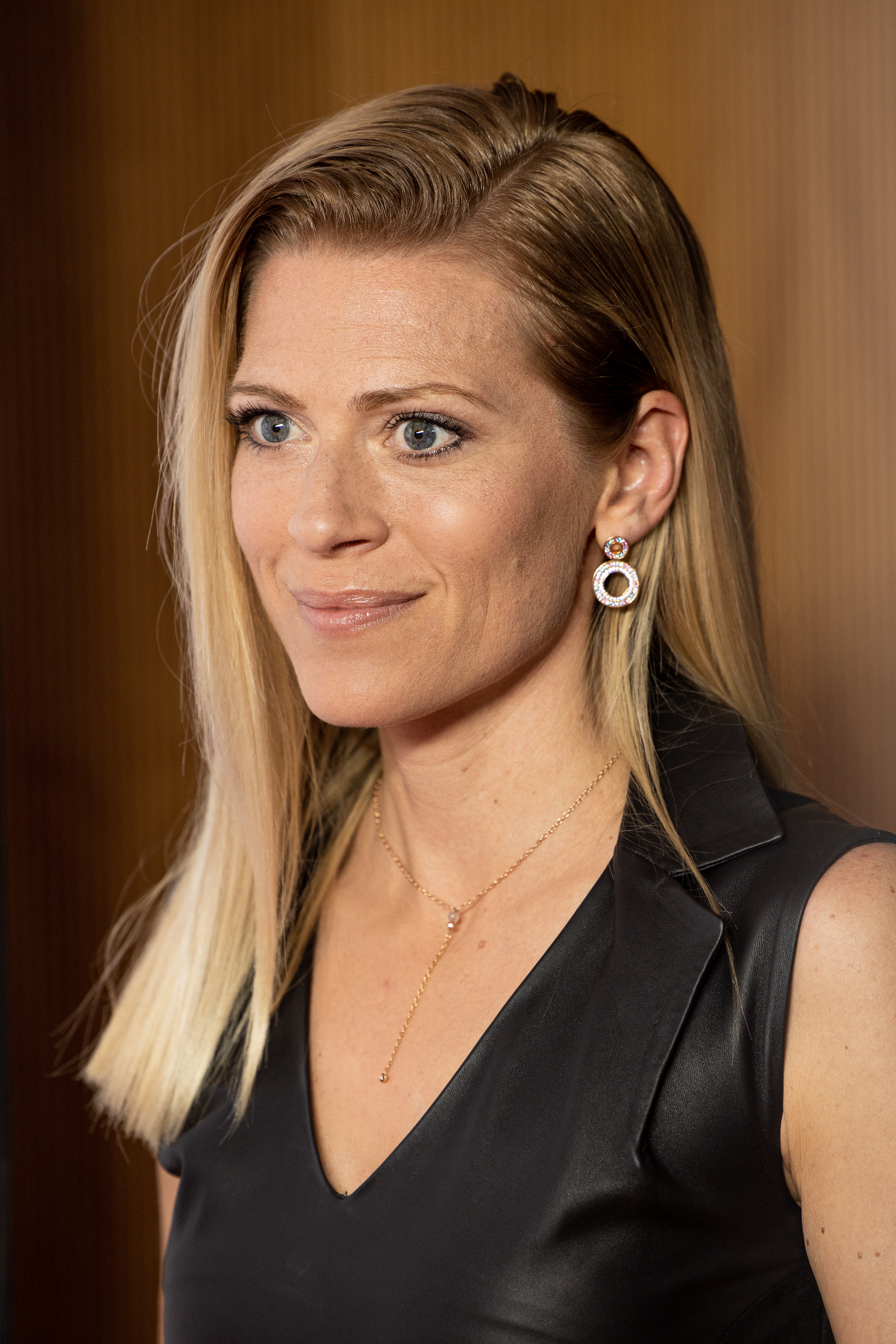 Nele Kiper at the Berlinale reception of the North Rhine-Westphalian state representation in Berlin, 2020